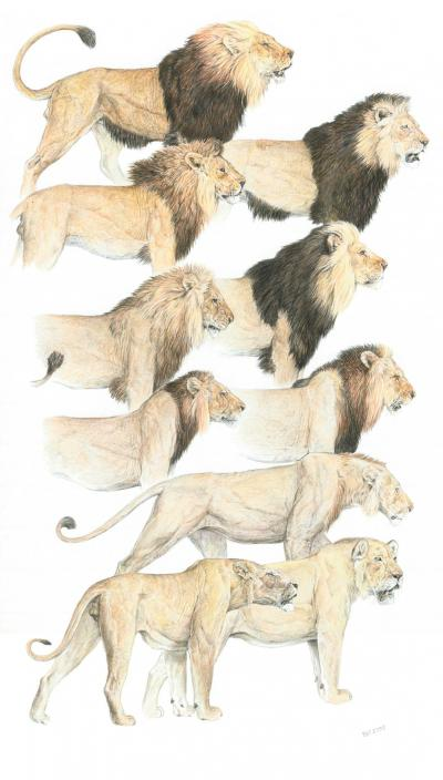 Caption: The equatorial region of East Africa (Kenya) has long maintained a native lion population exhibiting the greatest range of mane variation known on the planet. While plenty of poorly, modestly and fully maned lions still occur in the eastern, southern and northern regions of that country, lions with truly exceptional manes from the mountain plateaus have fallen victim in recent years to persistent eradication efforts by animal control units. Safeguarding livestock interests near the boundaries of these limited highland protected areas has become a priority in those districts, despite the lions recent elevation to the status of a "threatened" species in that country. Credit: Color plate by Velizar Simeonovski Usage Restrictions: None Related news release: Groundbreaking study by Field Museum scientists explains mane variation in lions